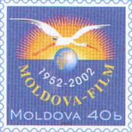 Stamp of Moldova